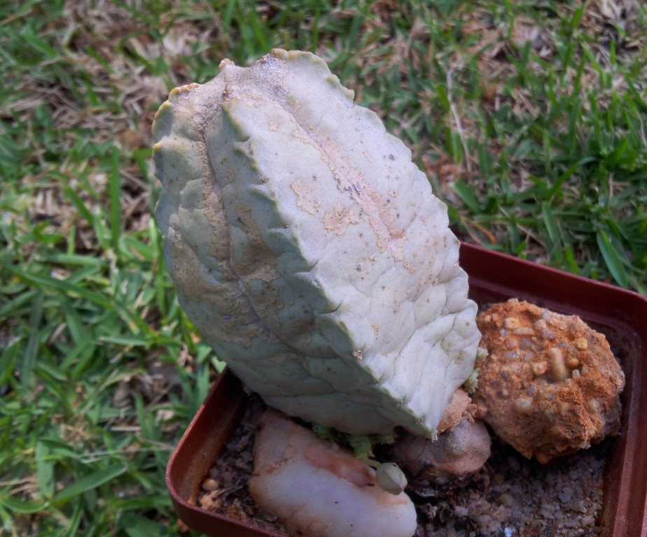 Whitesloanea crassa - stapeliad species in cultivation in cape town